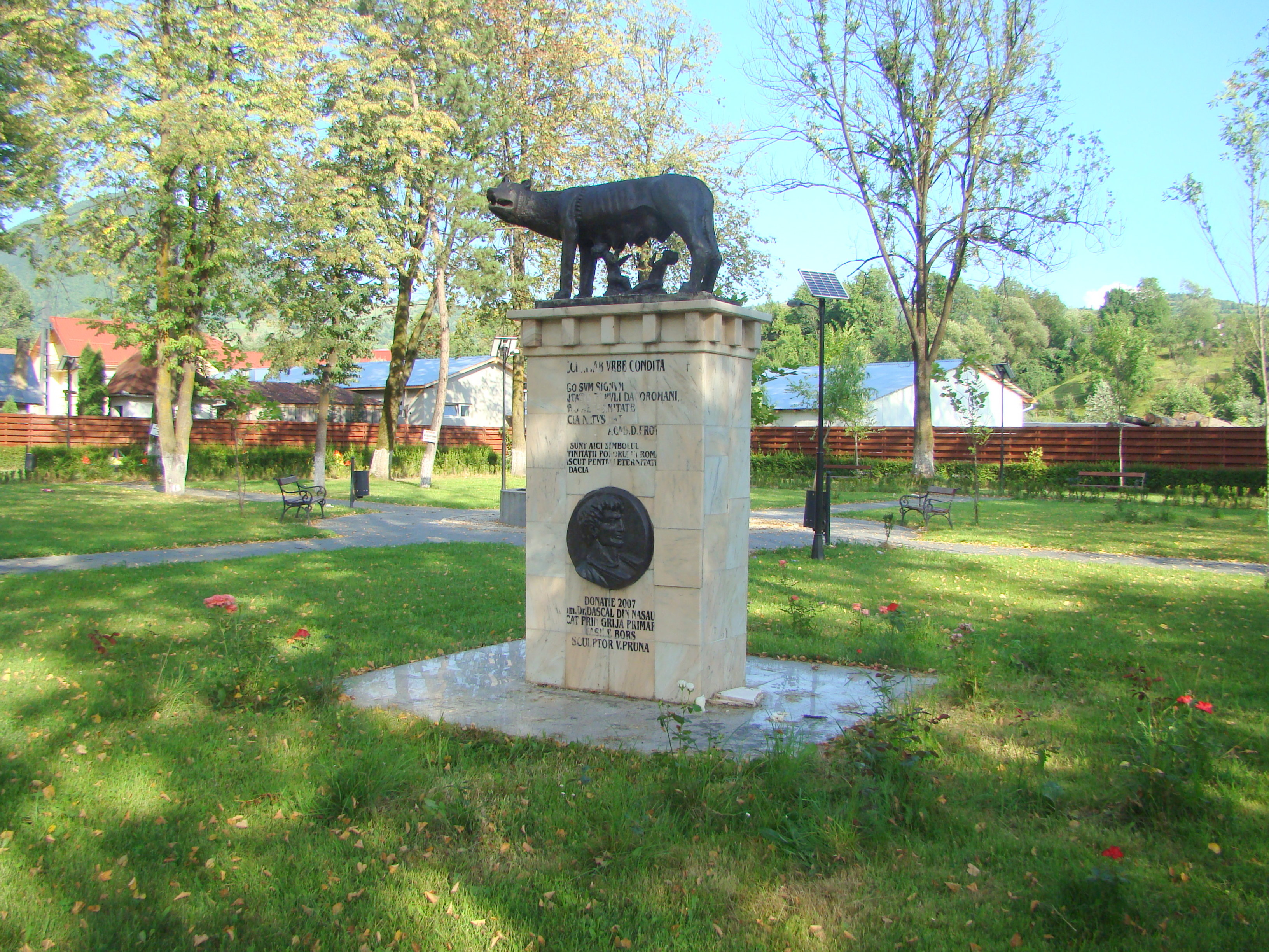 Statue, replica of Lupa Capitolina, located in Maieru